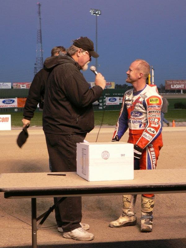 Chris Carr interview. The MC talking to Chris Carr about his record breaking ride at the Bonneville Salt Flats. I wanted a picture of him but when I got close to the victory circle I couldn't understand the P.A. so I missed part of the interview. The only place I could understand the P.A. was near turn 4 and the victory circle was down at the end of the front stretch. Chris is a 7 time Flat Track champ and tonight he was only 9 points out of first. Too bad his engine went bad on the first lap of the feature.